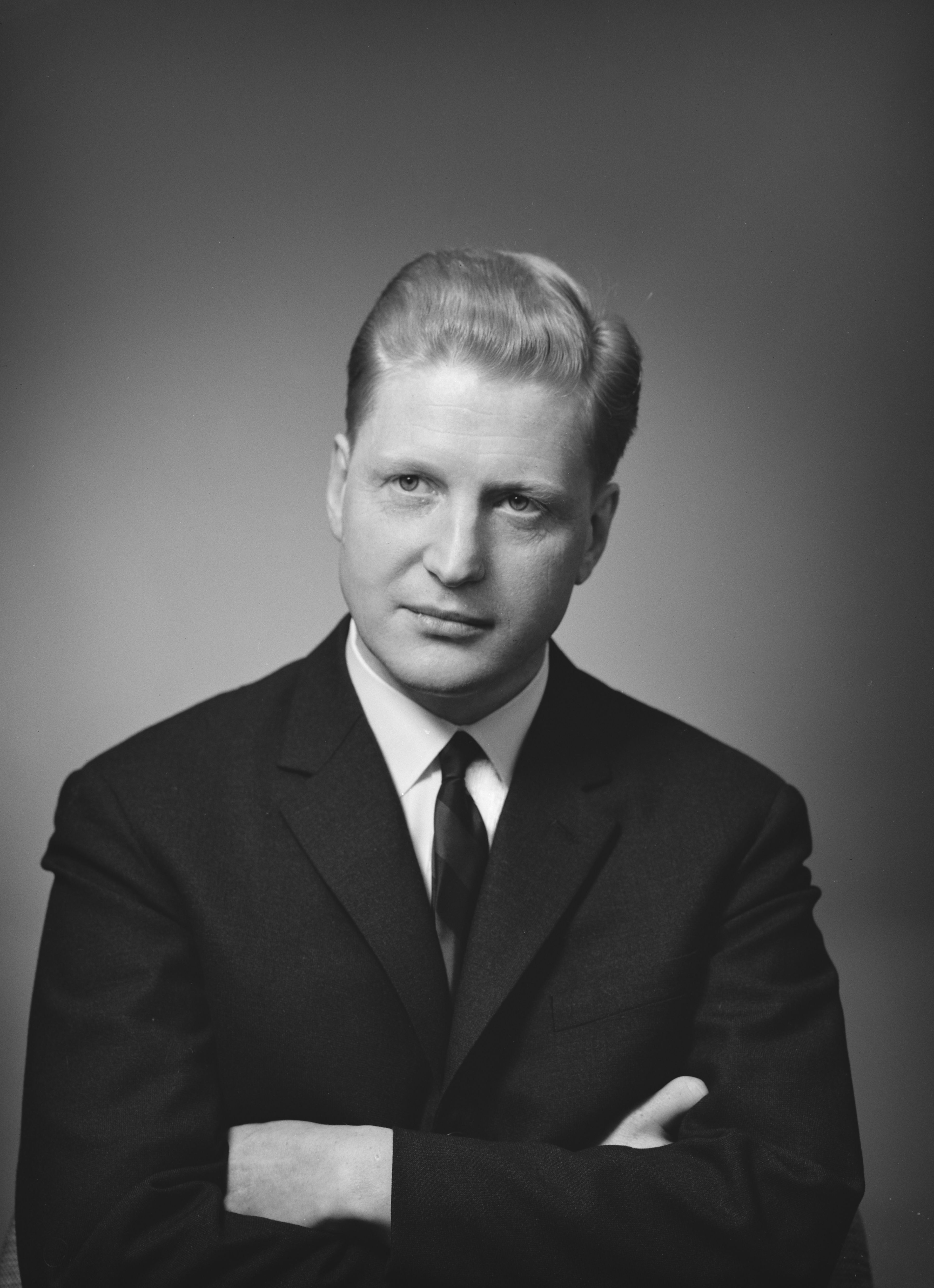 Photograph of the Finnish diplomat Pertti Ripatti (1930–2016).